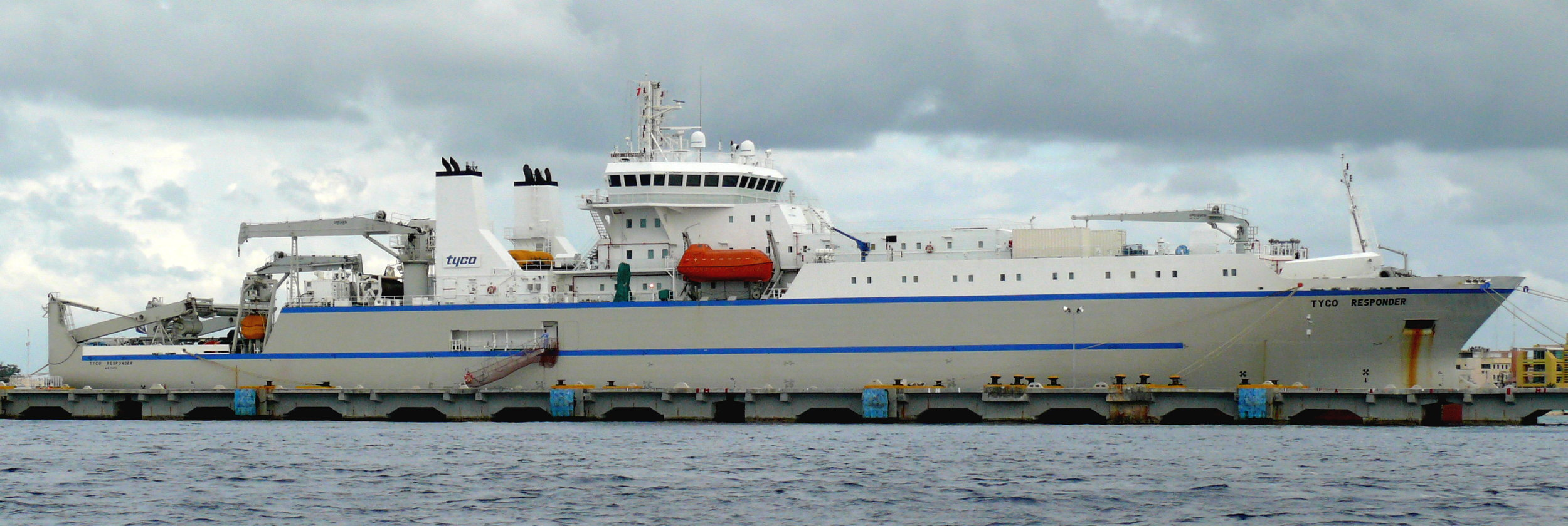 The CS Tyco Responder is a Reliance-class cable-laying and repair ship owned and operated by Tyco Telecommunications. It is designed to install and maintain transcontinental underwater communications cables.Photo taken with a Panasonic Lumix DMC-FZ50 off the island of Cozumel in Quintana Roo, Mexico.